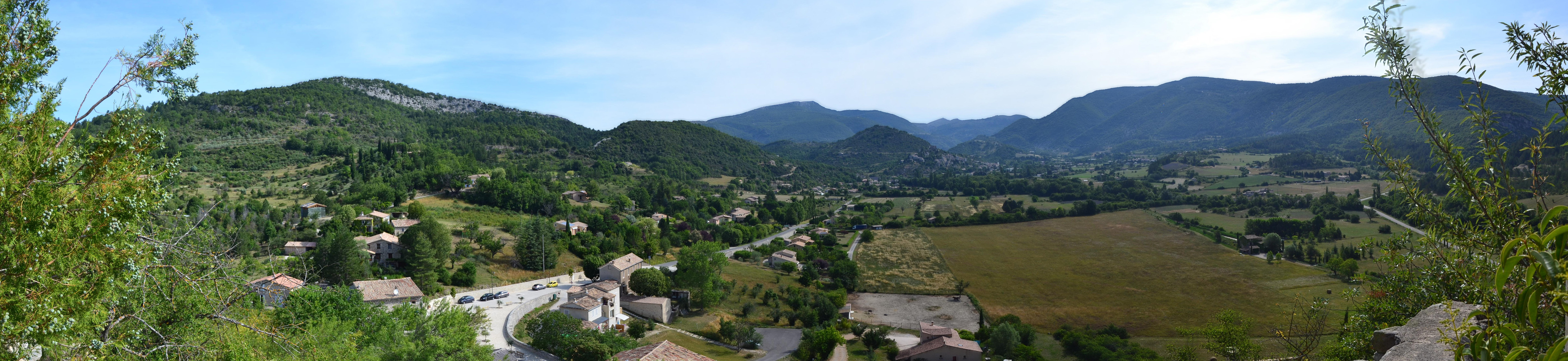 Landscape near Reilhanette, Drôme, France. Panoramic made using AutoStitch from photos taken om July 18, 2019.